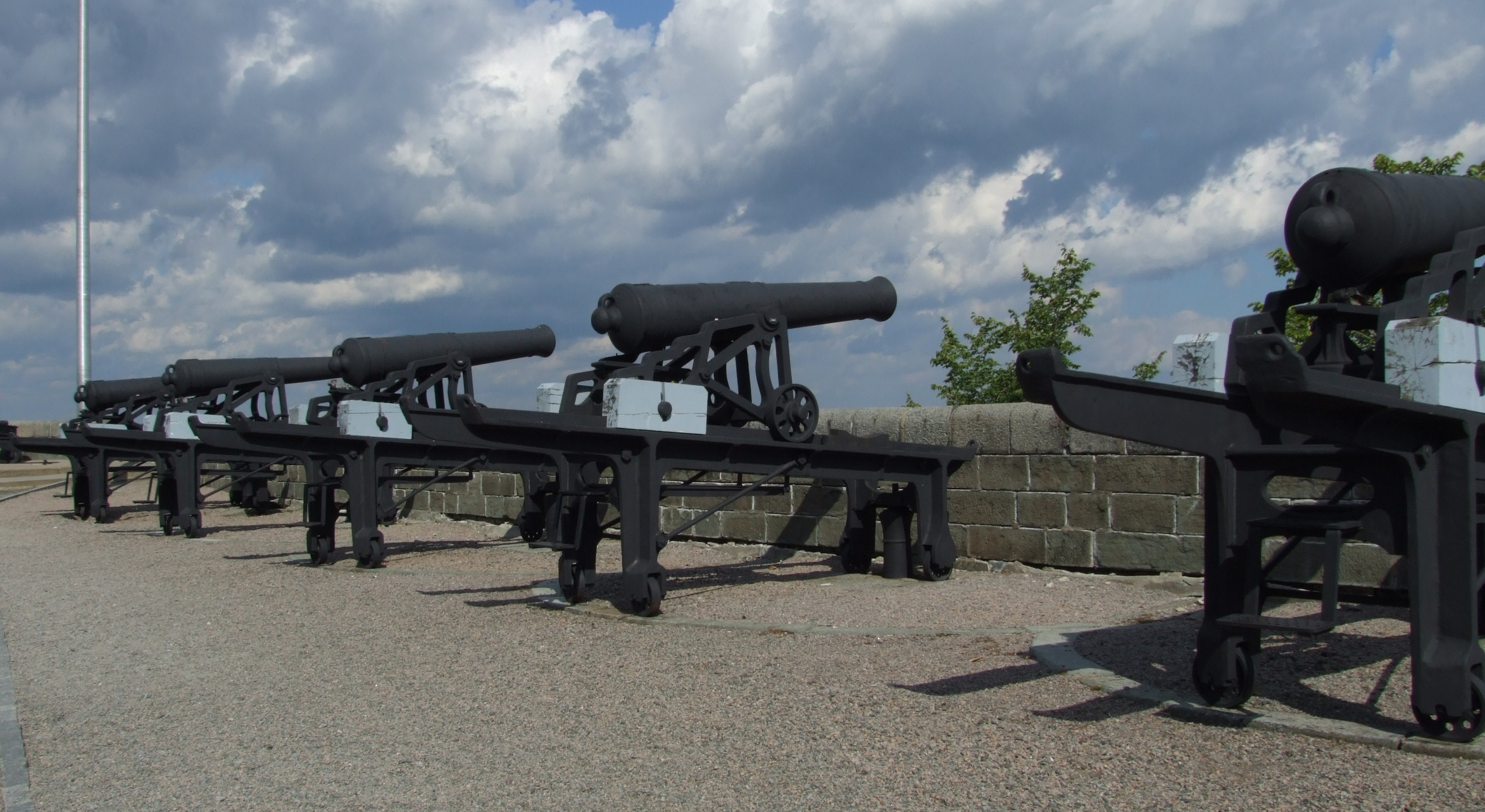 Quebec city, CANADA